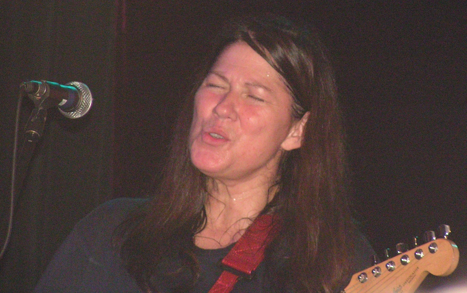 Kim Deal, The Breeders live in the Zappa club, Tel Aviv, Israel, August 22, 2008